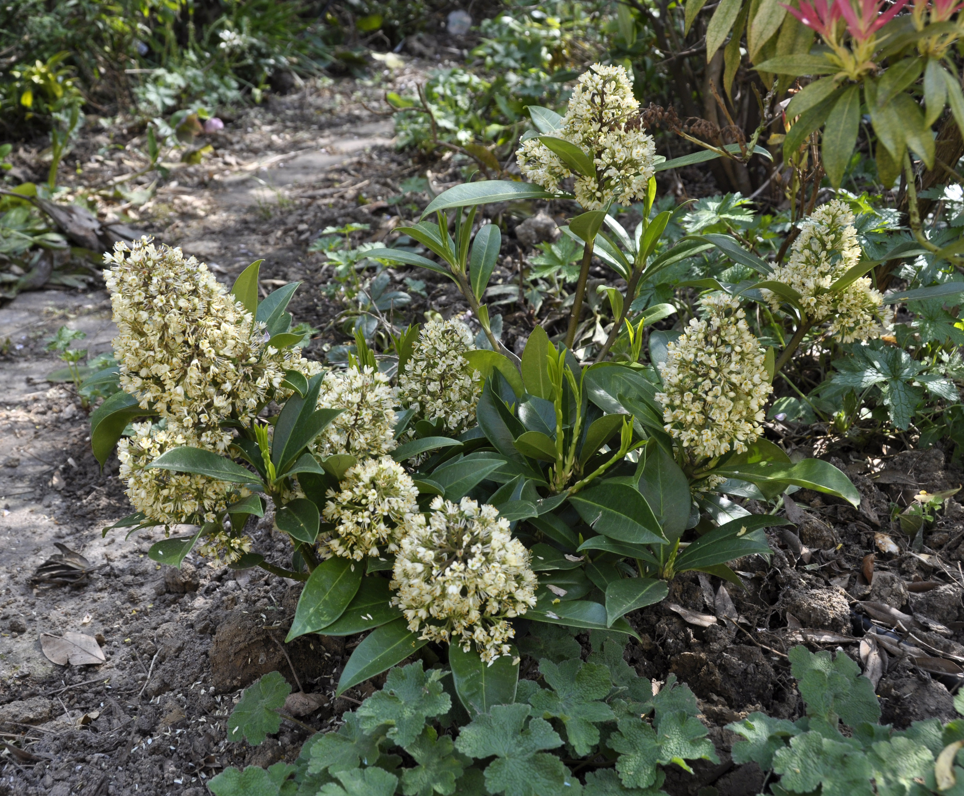 Skimmia × confusa 'Kew Green'. Photo has been taken in Belgium